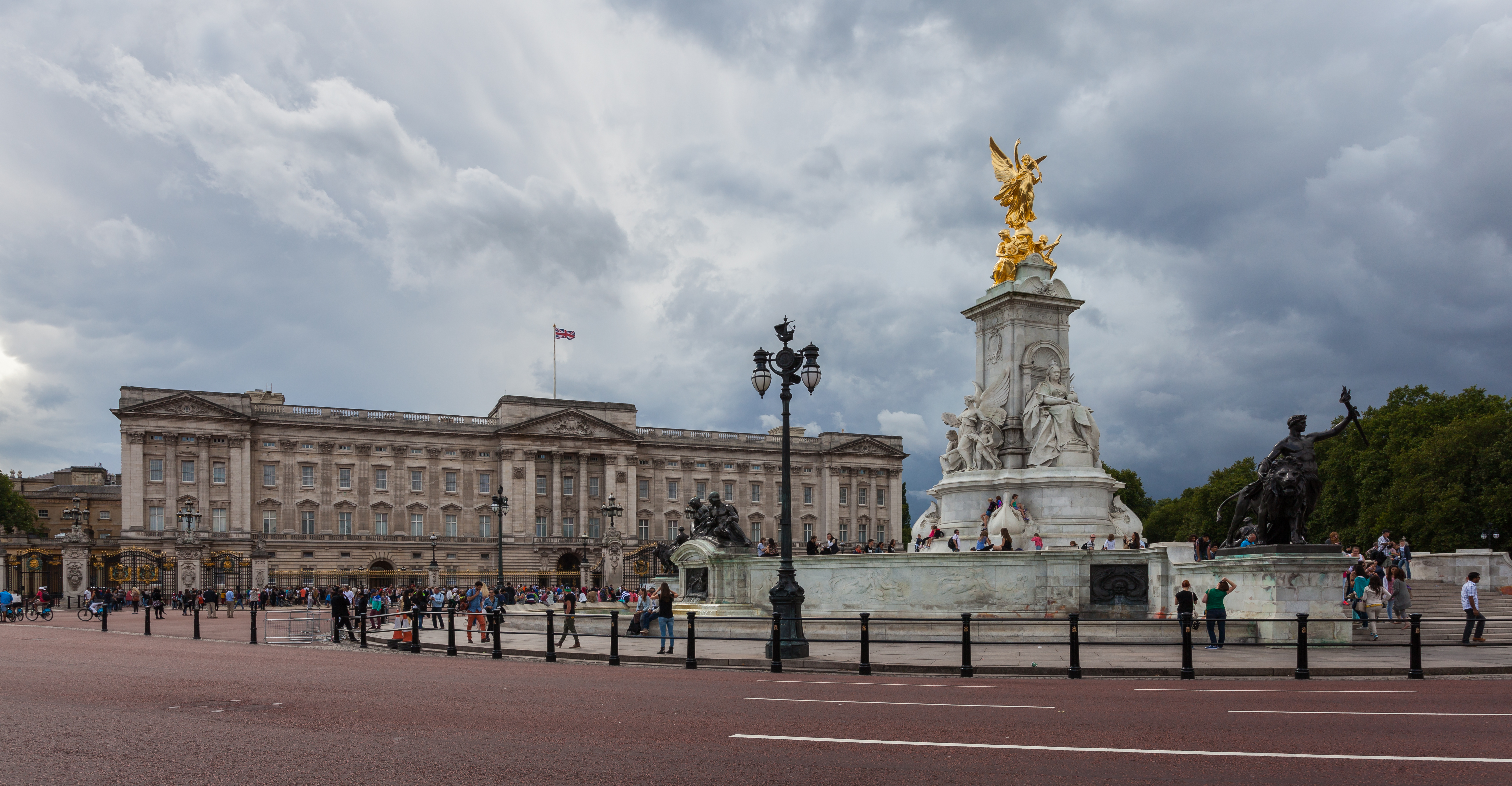 Victoria Memorial and Buckingham Palace, London, England